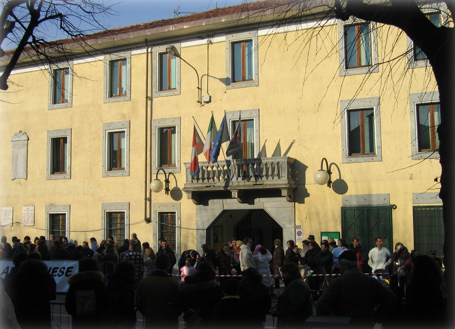 Town hall of Airasca during carnival party (23 jan 2005), by Iron Bishop - first published on Wikipedia Commons (18 mar 2005).